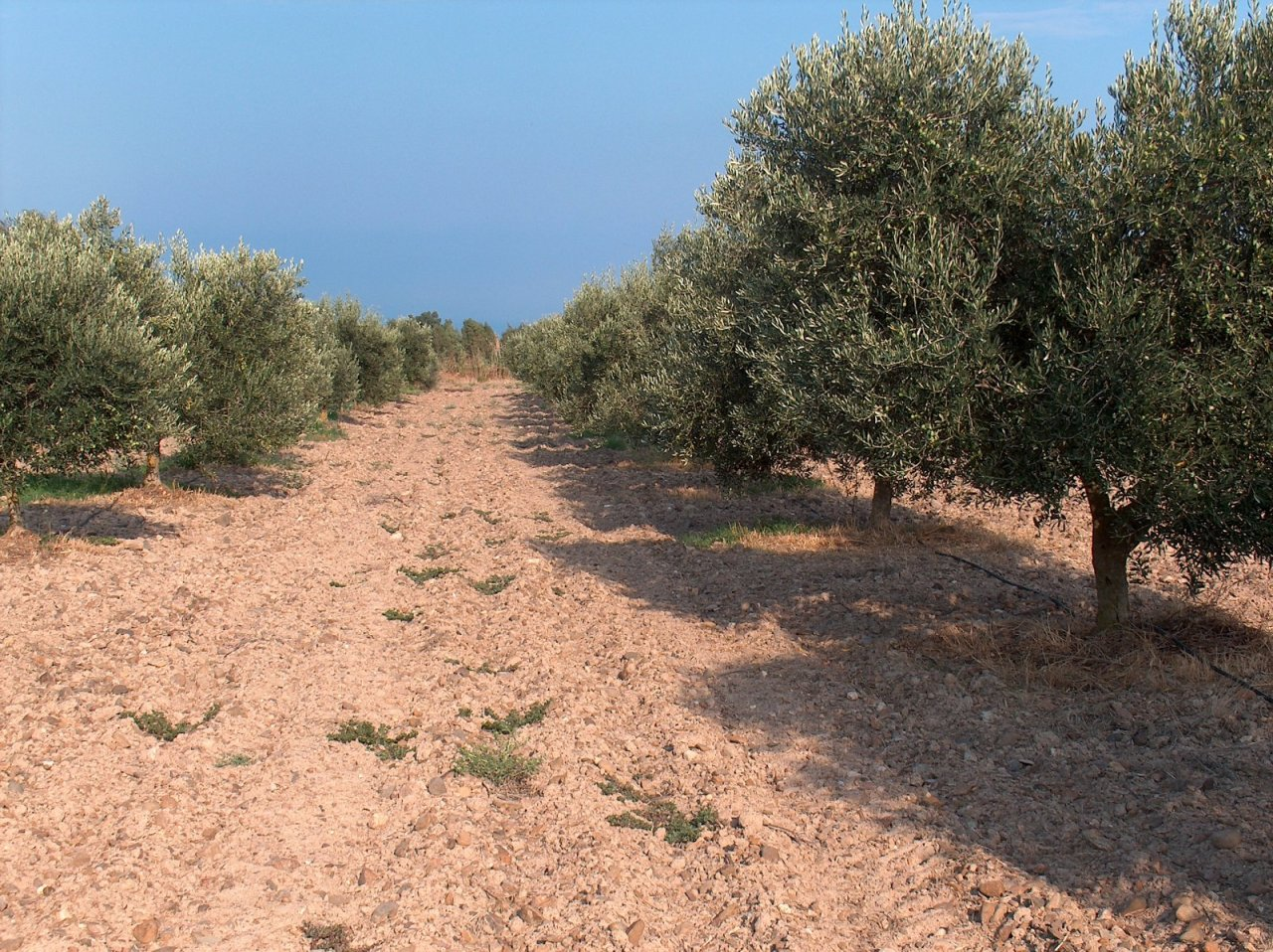 Olive grove 16 years old